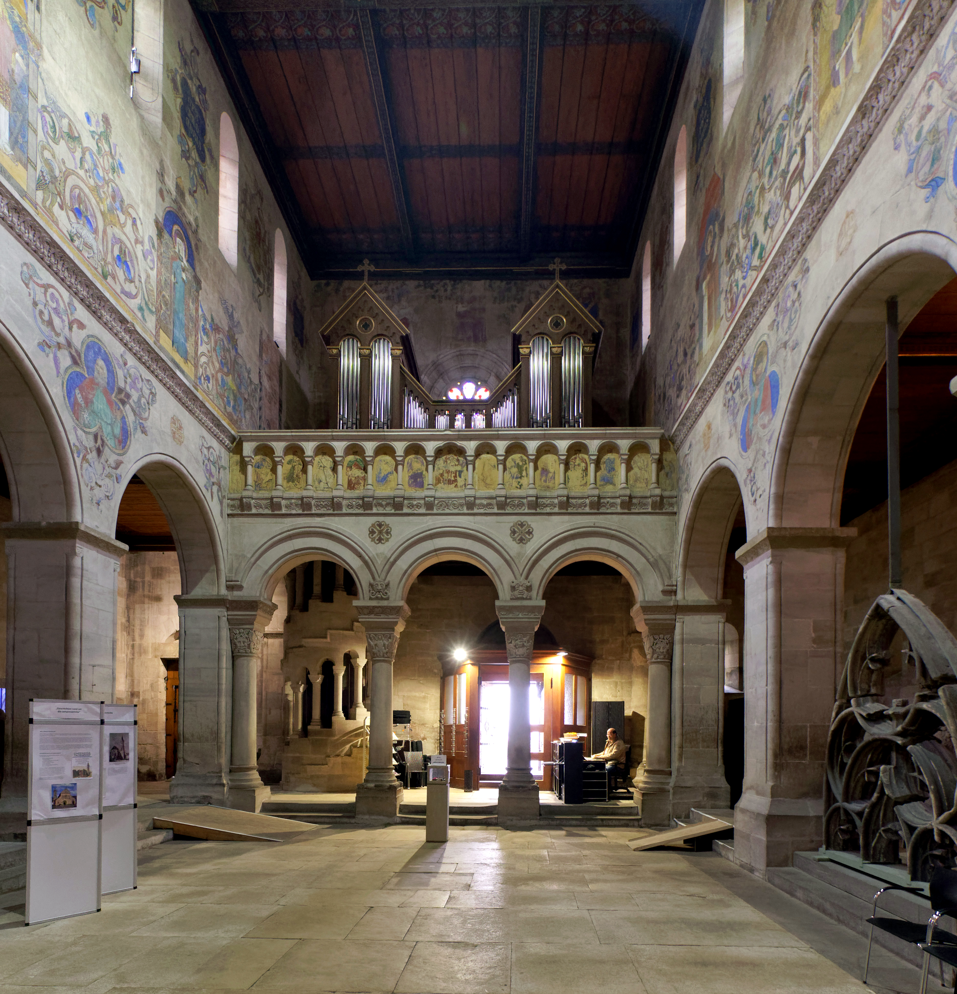 St. John´s Church in Swabian Gmünd.